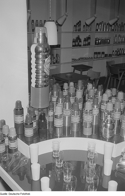 Original image description from the Deutsche Fotothek Isolierkannen der Firma Thermos, Herbstmesse 1953